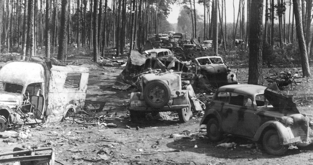 Wreckage of a German convoy near Spreewald during the Battle of Halbe.